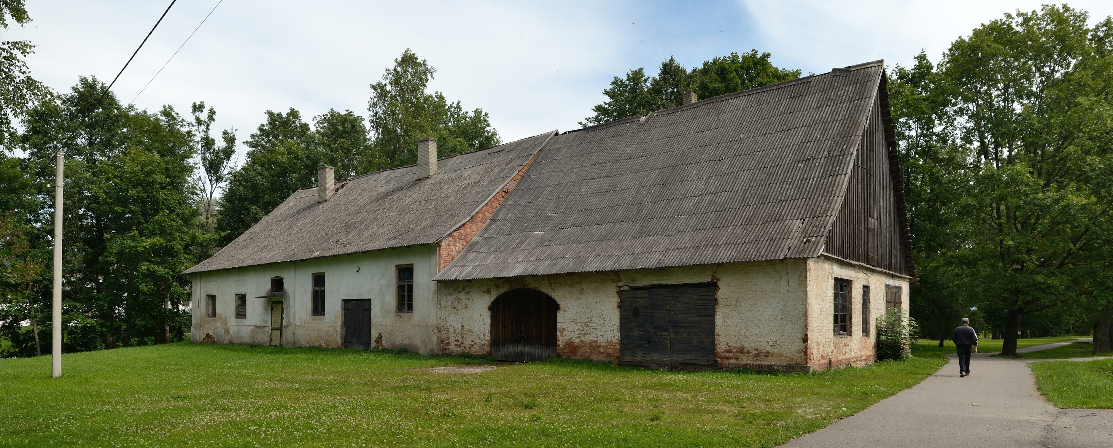 Ahja manor stable-coach house